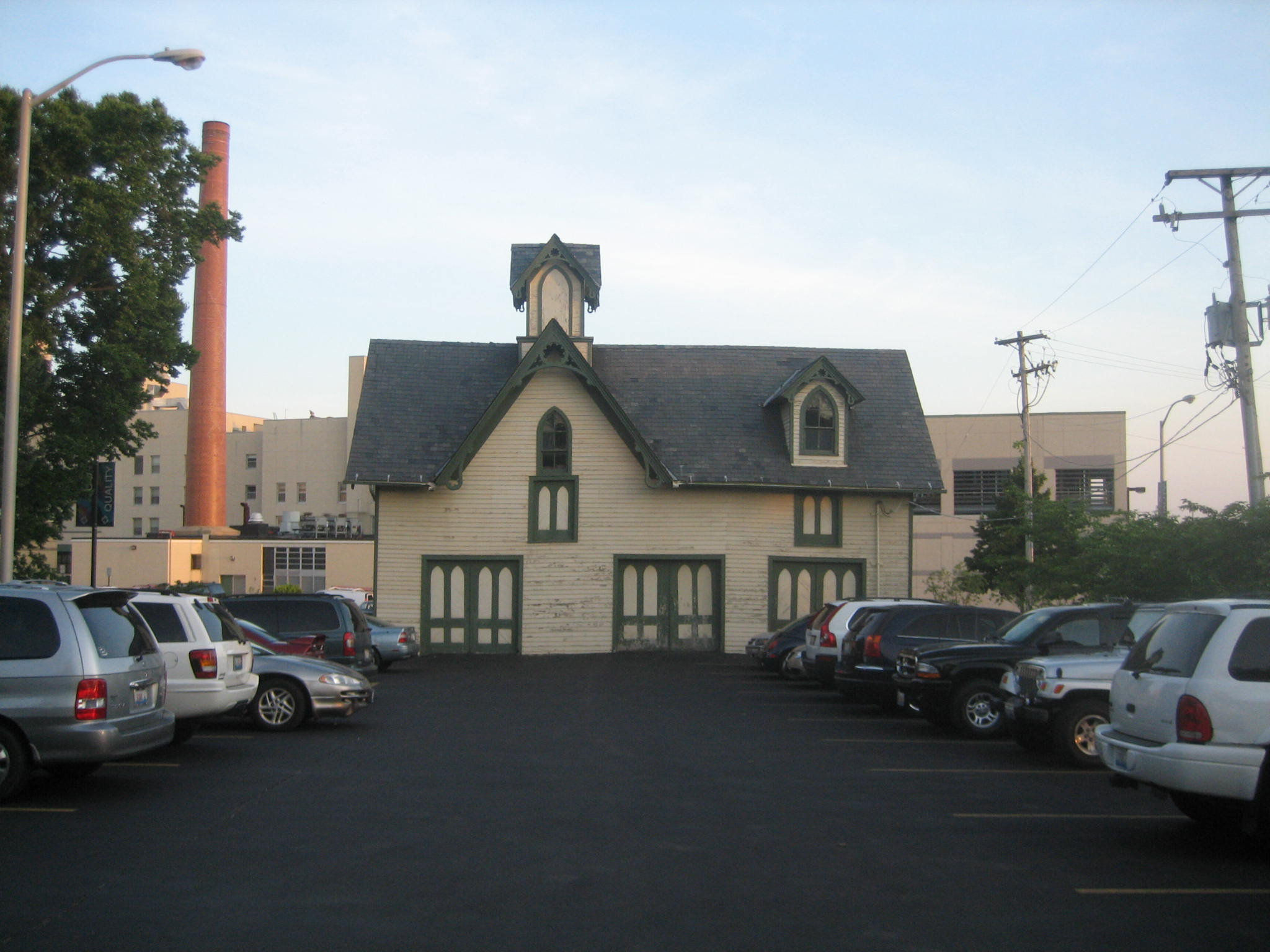 Lake-Peterson House, carriage house. Rockford, Illinois, United States. U.S. National Register of Historic Places.